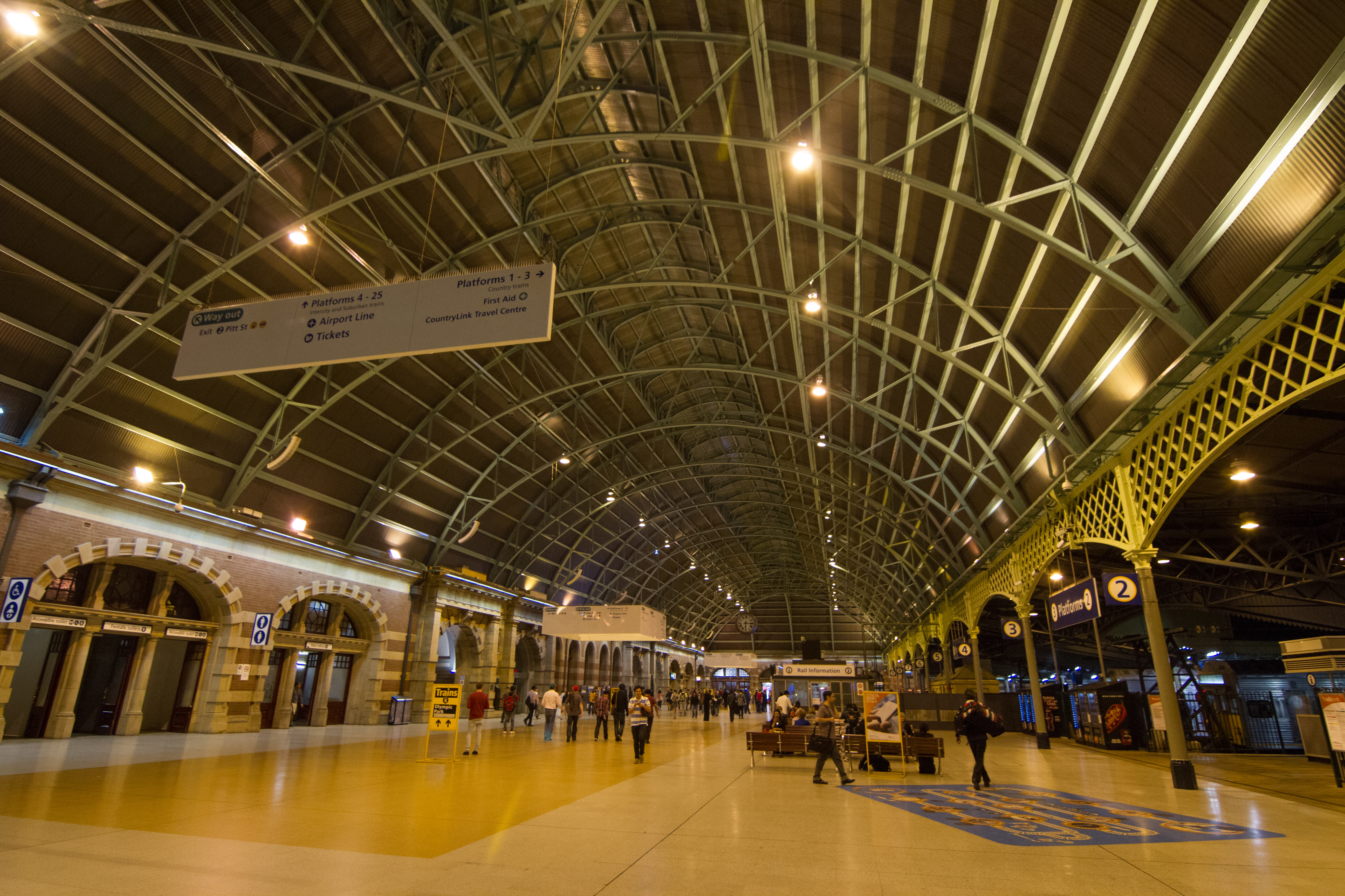 Central railway station, Sydney